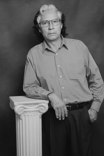 Nicaraguan Poet